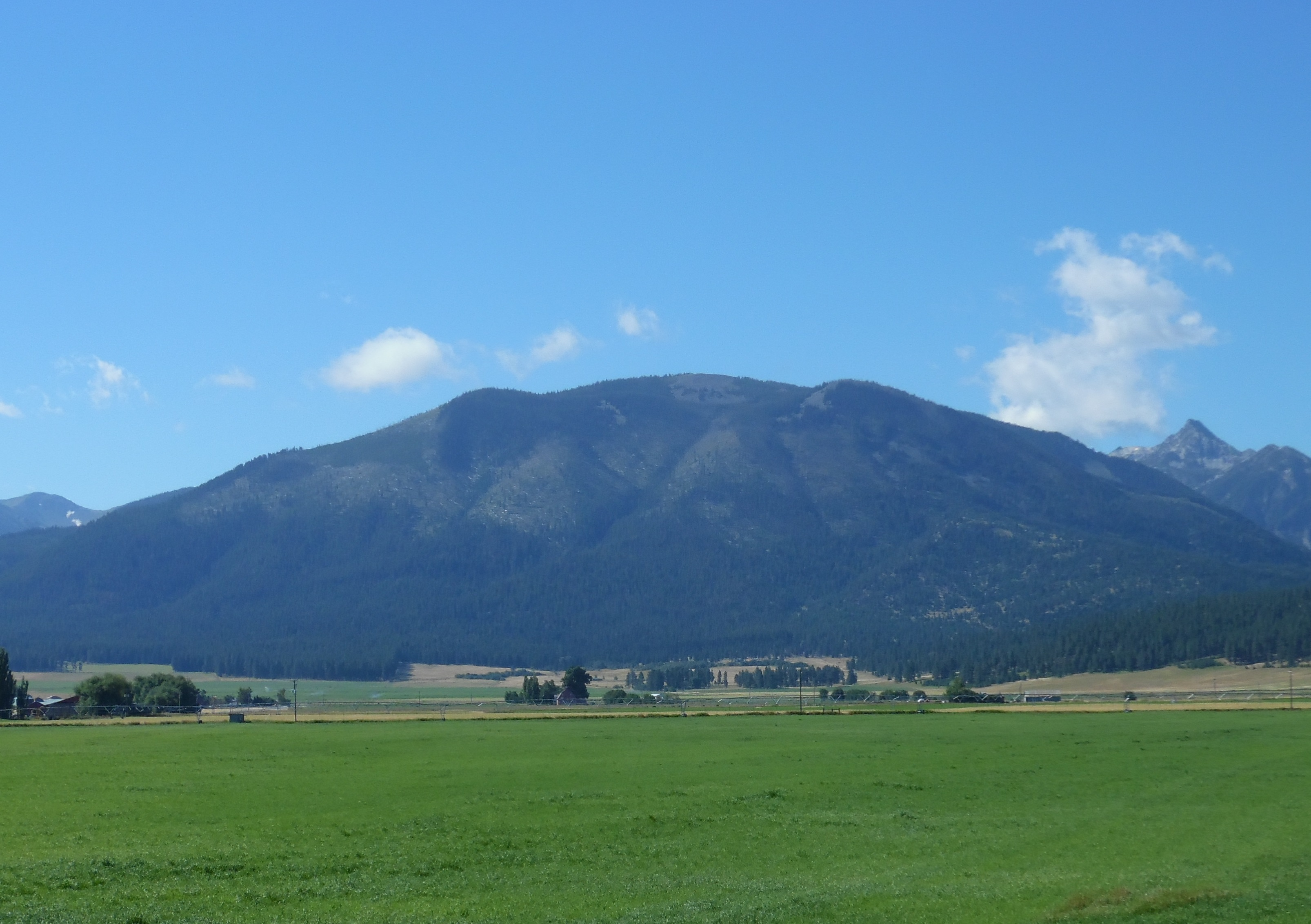 North side of Mount Howard; viewed from two miles east of Joseph, Oregon